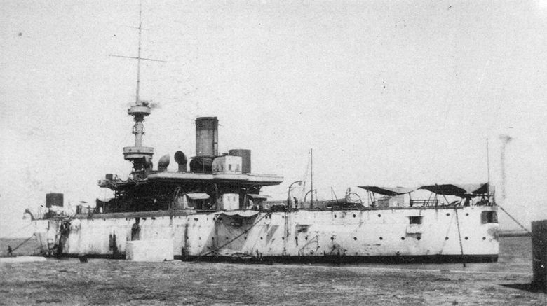 Russian Battleship Georgii Pobedonosets in Bizerte.